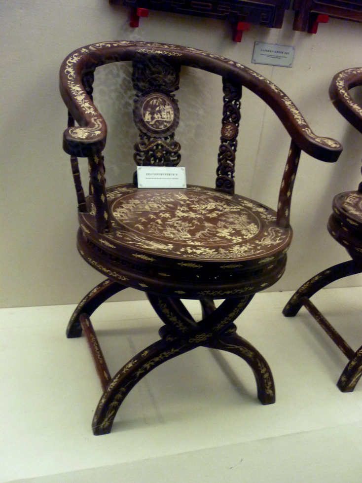 Bone embedded in a chair, typical Ningbo artifact.